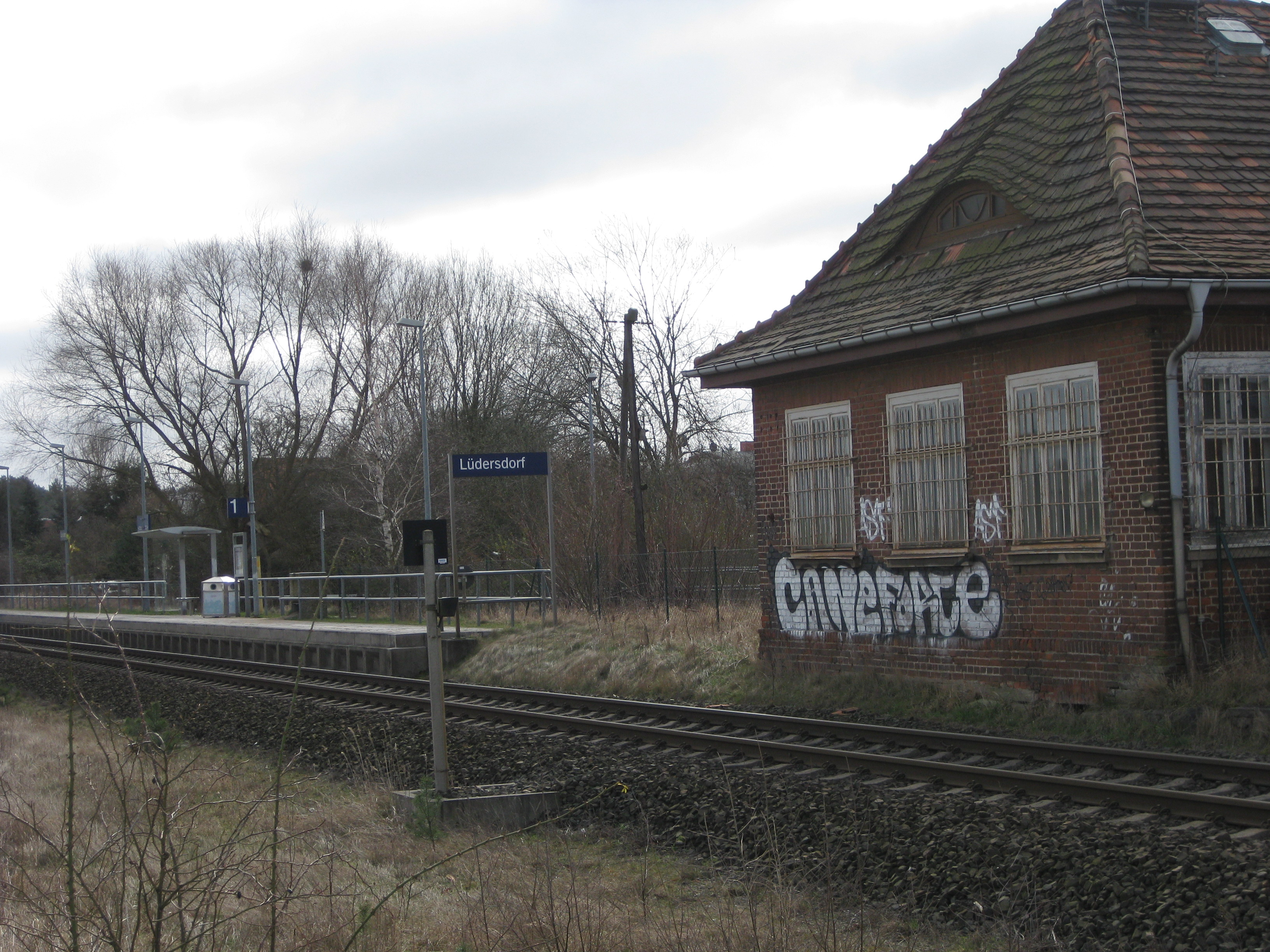 Railroad station Lüdersdorf, Mecklenburg.